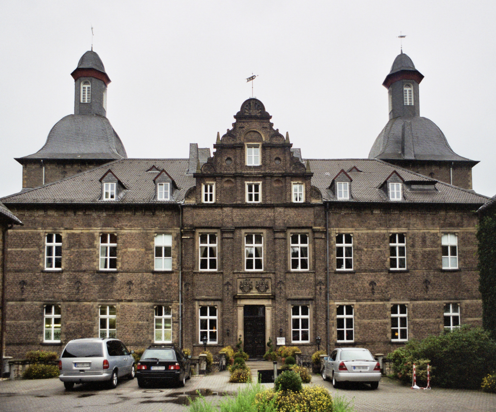 Hugenpoet Castle, Essen-Kettwig - main building